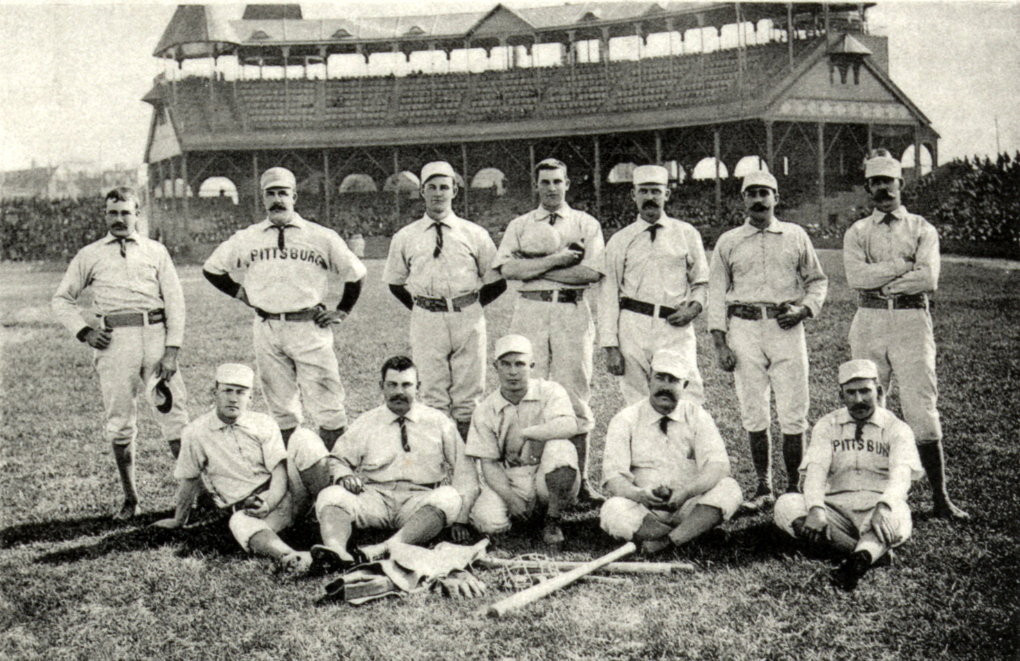 Team photo of 1888 Pittsburg Alleghenys at South End Grounds, Boston.